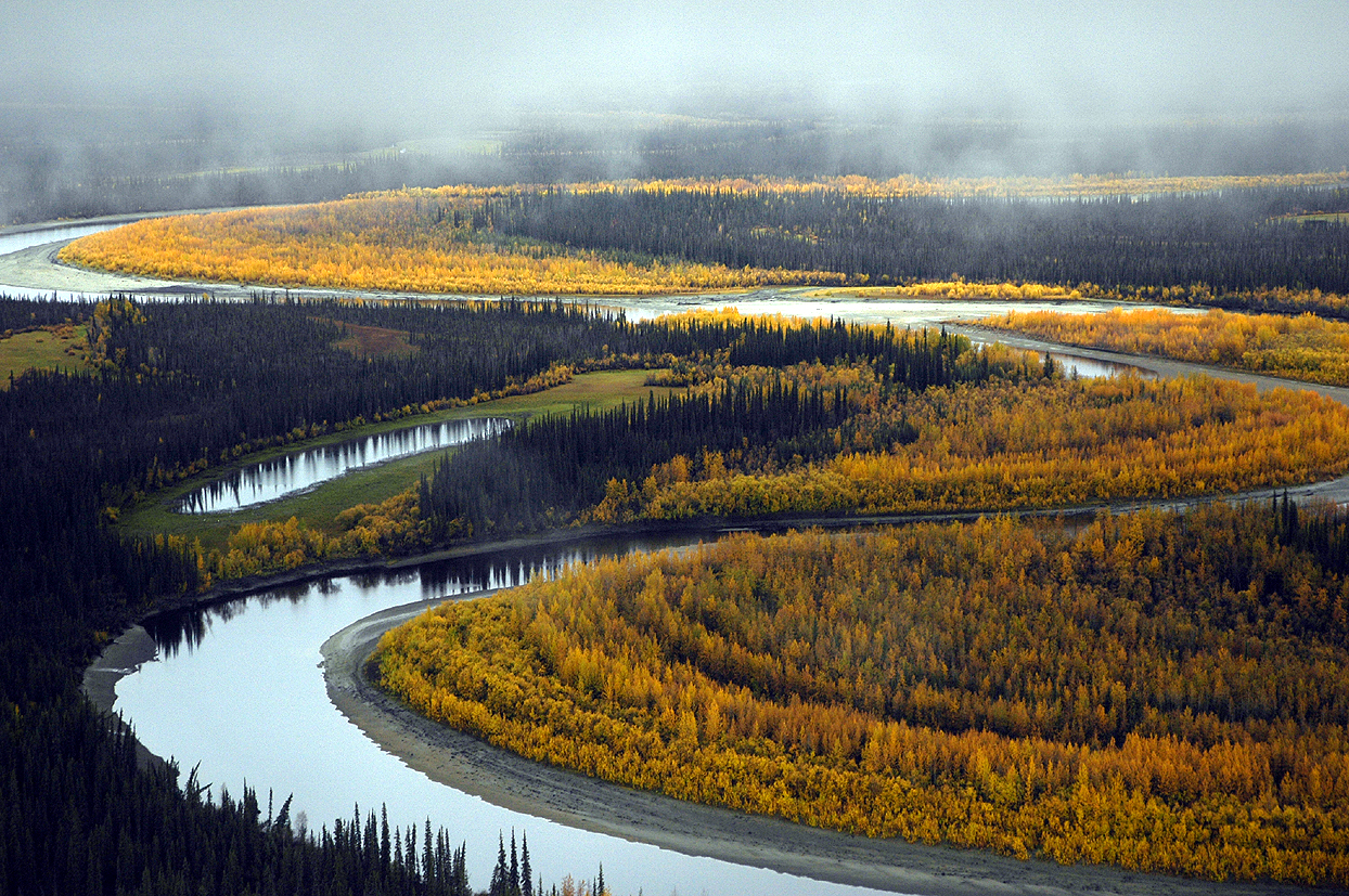 South Fork of Koyukuk River, Kanuti National Wildlife Refuge